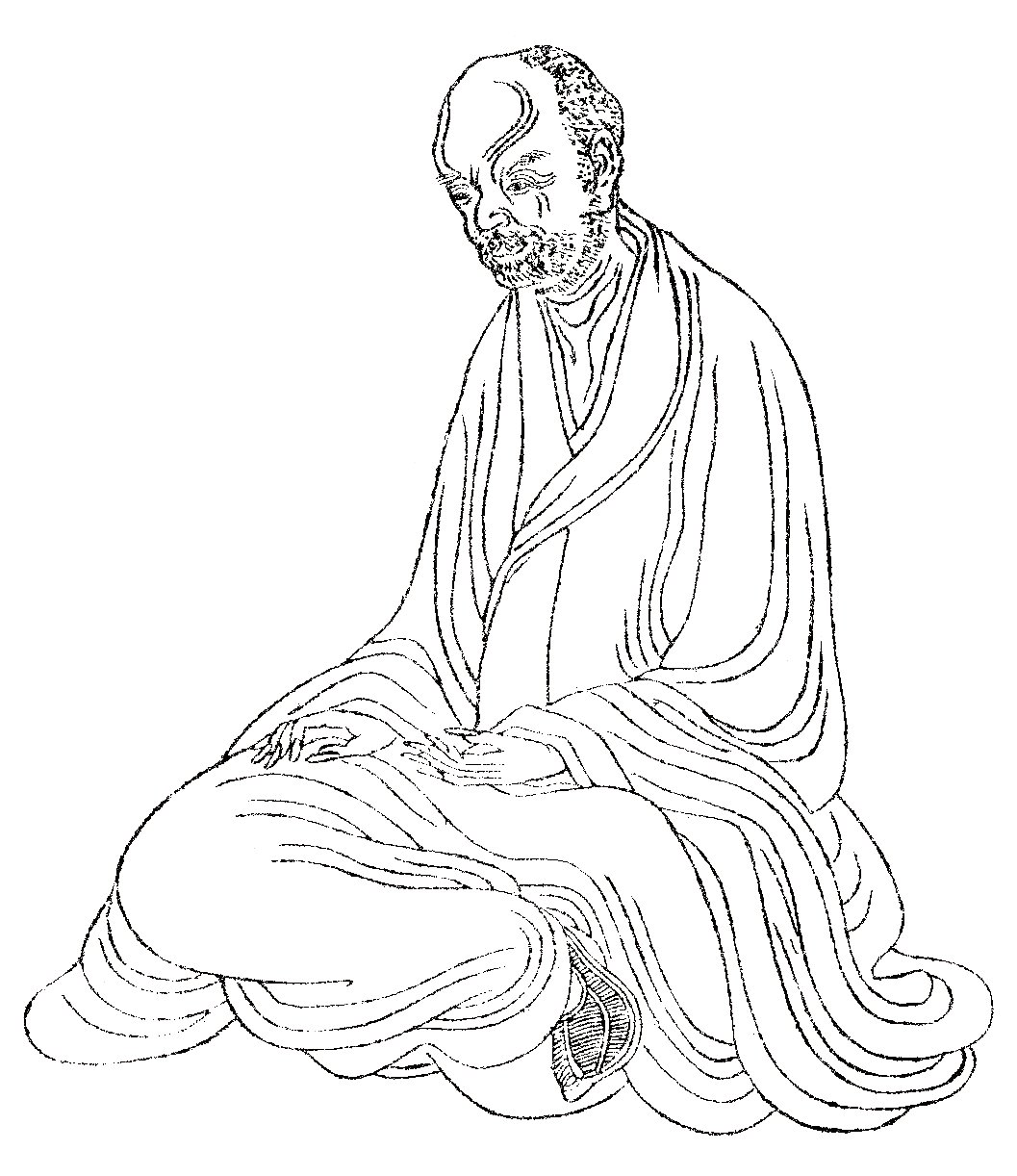 Hui Yuan（慧遠）was a hierarch of the Chinese Buddhism in the Eastern Jìn Dynasty（東晋）.